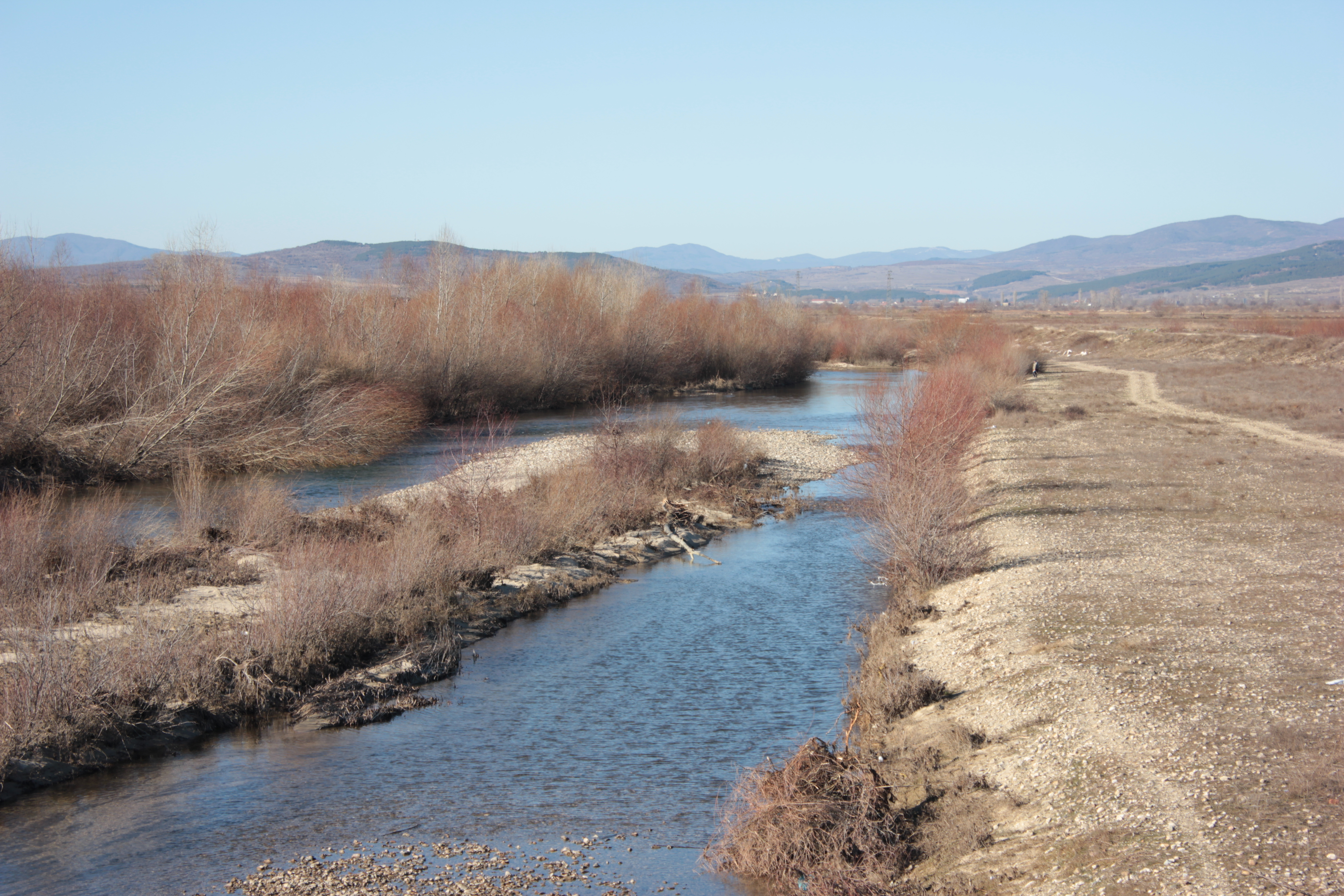 Topolnitsa river at Pamidovo village